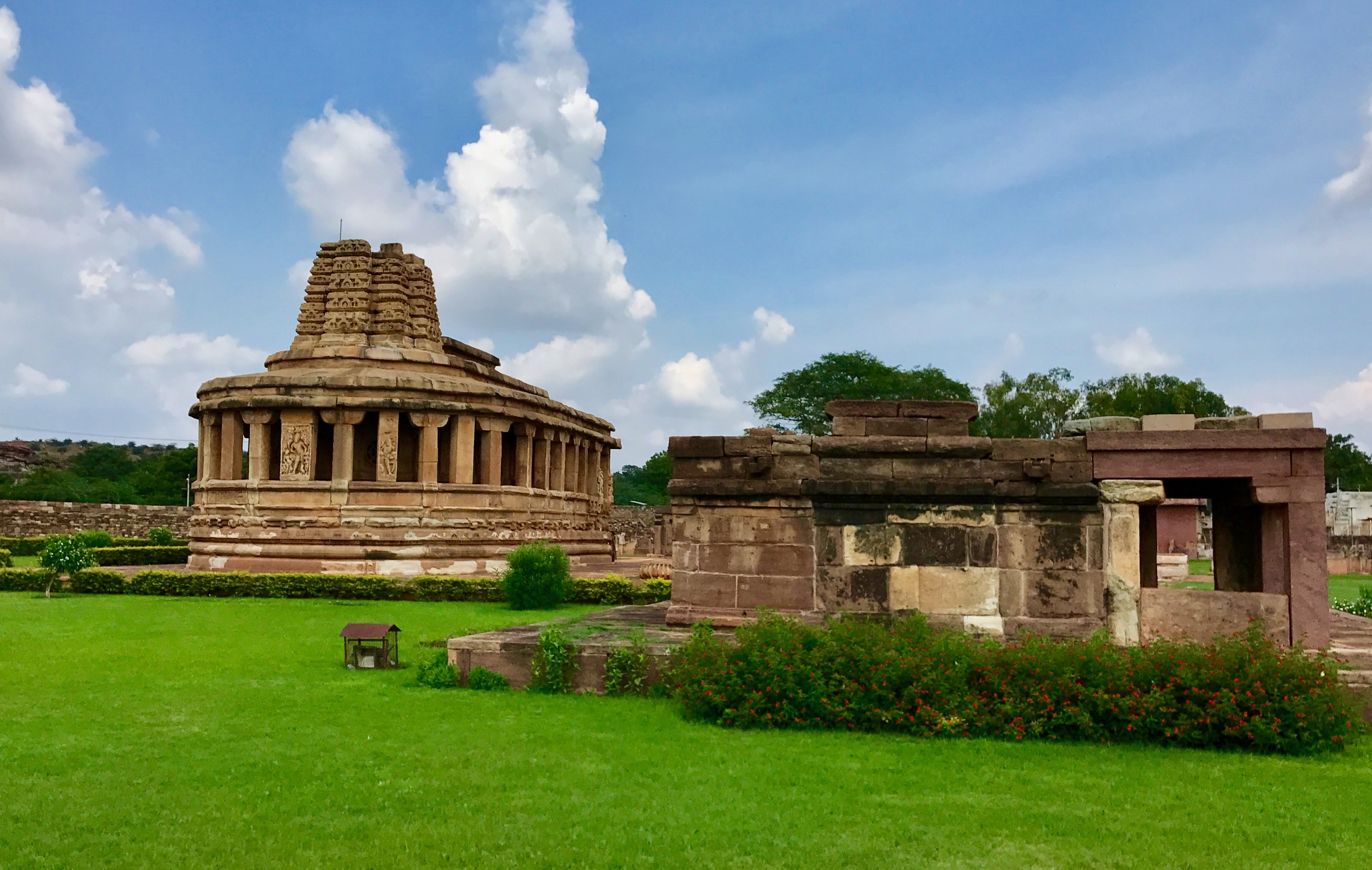 Aihole temples and monuments, also called Aivalli or Ayyavole or Aiholi temples and monuments, are a collection of over 100 temples built predominantly between 6th and 8th century near Malaprabha river in Karnataka. At this point, the river turns northwards towards the Himalayas which likely had significance as a location. Though defaced and damaged after the region was conquered by Muslim commanders of the Delhi Sultanate, the collection is one of the earliest surviving temples and window to ancient Indian arts, religious beliefs, society and architecture. Almost all temples are related to Hinduism, but these co-exist with a few Jain temples of this period and one Buddhist monument. Both north Indian and south Indian styles fuse here, with monuments suggesting experimentation of ideas and building styles under the sponsorship of late Gupta period Hindu kingdoms, particularly the Calukyas and Rashtrakutas. The Durga temple is actually a Surya temple, named as Durga because its ceiling was fortified later with stones and served as a "Durg" or watch / viewpoint. The temple is a rich collection of life size Hindu statues of Vaishnavism, Shaivism and Shaktism traditions. The carvings also show Kama and Artha scenes of Indian society from the 2nd half of the 1st millennium CE, while some panels display scenes from the Hindu epic Ramayana.